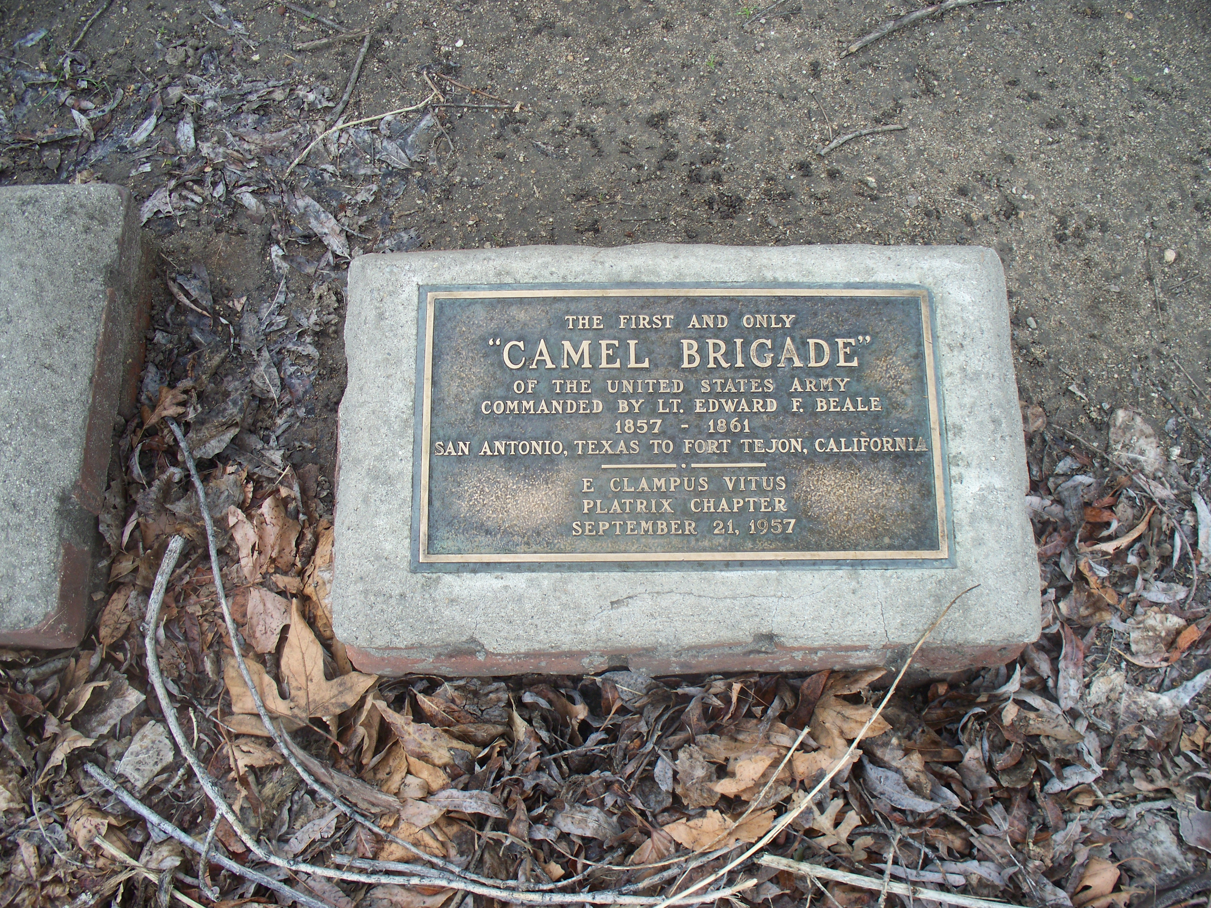 Army Camel Brigade plaque at Fort Tejon State Historic Park — on I−5 in the Tehachapi Mountains, Southern California.